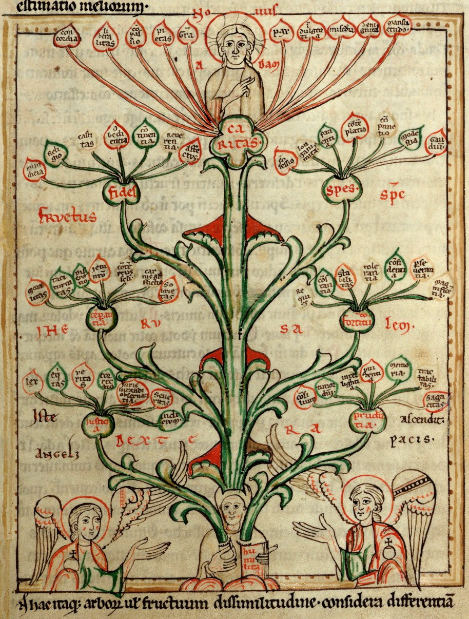 "Tree of Virtues" from Speculum Virginum, Walters Art Museum Ms. W.72, fol. 26r Early 13th century manuscript from the Cistercian abbey of Himmerode, Germany. Tree of the cardinal virtues each with their sub-virtues; the corresponding tree of vices is on the preceding page, File:Vices Speculum Virginum W72 25v.jpg. The seven cardinal virtues are caritas "love", fides "faith", spes "hope", temperantia "temperance", fortitudo "fortitude", iusticia "justice" and prudentia "prudence", with humilitas "humility" at the root of all. At the top of the tree is novus adam (Christ), contrasted with vetus adam in the tree of vices; the inscriptions fructus spiritus : iherusalem : dextera : [fructus] iste ascendit contrasts with the corresponding fructus carnis : babilonia : sinistra : fructus iste descendit in the tree of vices. Instead of the dragons, the tree of virtues has two angles flanking it, glossed with angeli pacis. At the bottom is the gloss hac itaque arboris ut fructuum dissimilitudine considera differentia. literature: Pablo Garcia Acosta, Mirouer, diss. Pompeu Fabra, Barcelona, 2009, p. 183; A. Watson, "The Speculum Virginum with Special Reference to the Tree of Jesse", Speculum 3.4, October 1928, 445-469. caritas: concordia, liberalitas, compassio, pietas, gratia, pax, indulgentia, misericordia, benignitas, mansuetudo fides: munificia, religio, castitas, obedientia, continentia, reverentia, affectus spes: confessio, longanimitas, patientia, comtemplatio, conpunctio, modestia, gaudium temperantia: moralitas, taciturnitas, discretio, jeunium, contemptus seli, carnis afflictus, sobrietas fortitudo: requies, constantia, stabilitas, tolerantia, confidentia, perseverantia, magnificentia iusticia: lex, equitas, veritas, correctio, iuris iuvandi observantia, severitas, indictum prudentia: consilium, amor domini, intelligencia, providentia, memoria, tractabilitas, sagacitas